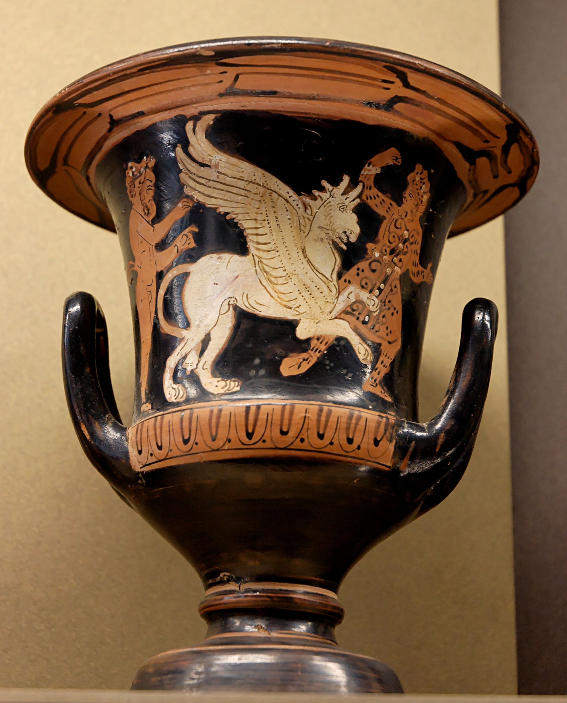 A satyr, a griffin and an Arimaspus. Attic red-figure calyx-krater, from Eretria.